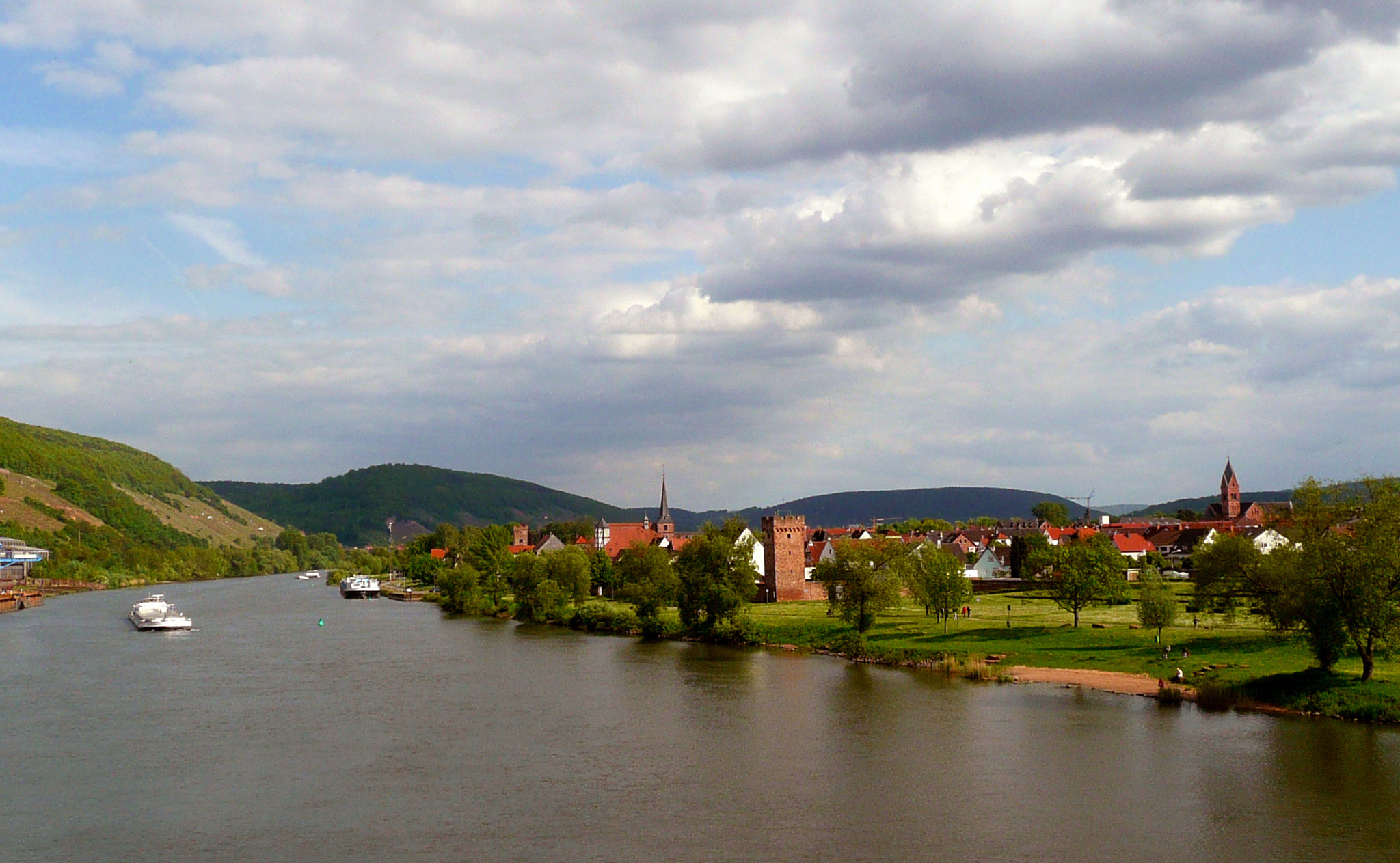 Wörth am Main viewed from the Main bridge